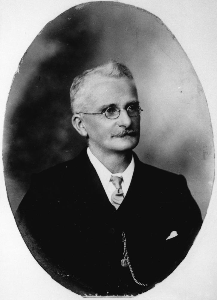 Alderman Alfred John Raymond Alfred John Raymond was the Mayor of Brisbane in 1912. (Description supplied with photograph).